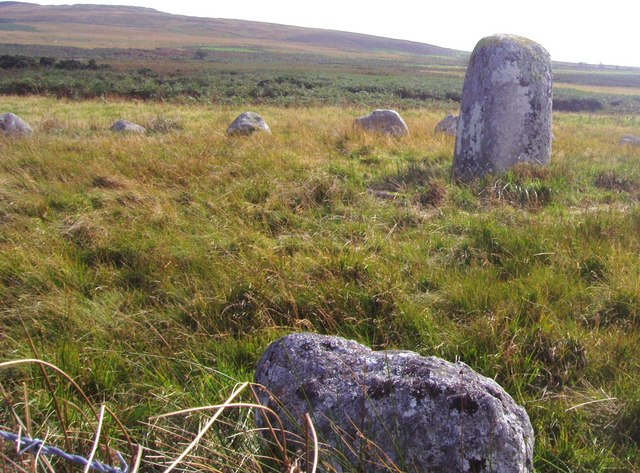 Glenquicken Stone Circle This stone circle is on the remote Glenquicken Moor. It is a ring of 28 low boulders set close together. Just one stone, in the south west, appears to be missing. The central standing stone is 1.6m high. It is granite and weighs over 4 tons. The circle is 15.5m in diameter.